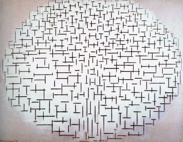 Piet Mondrian - Composition No.10 (Pier and Ocean) (1915)